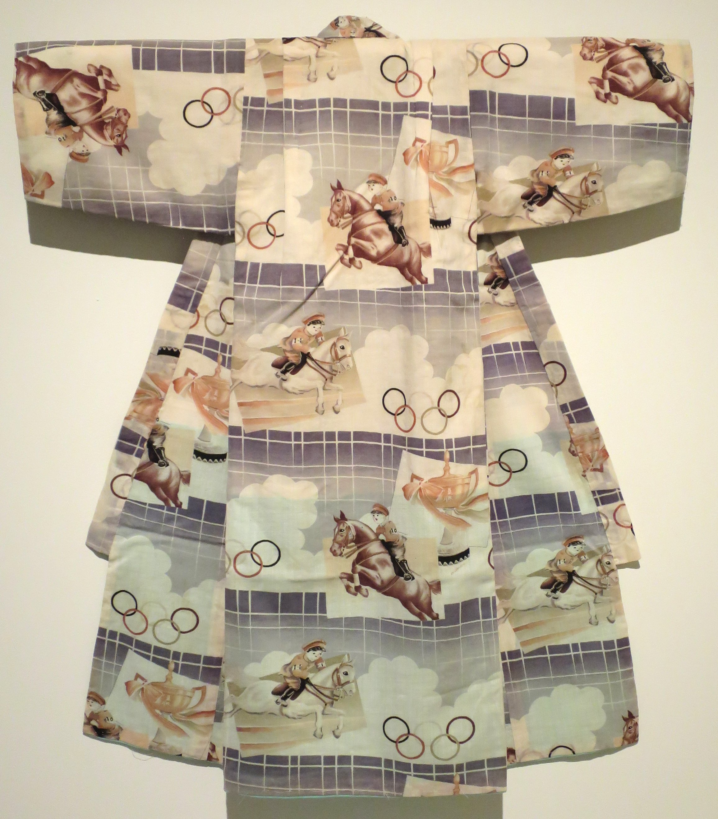 Boy’s kimono from Japan decorated with Olympic horseman Takeichi Nishi as a boy, c. 1932, wool, plain weave, stencil printing, Honolulu Museum of Art accession 11029.1